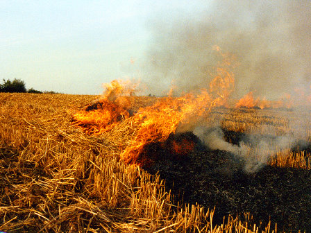 autumn burn, burning straw, stover